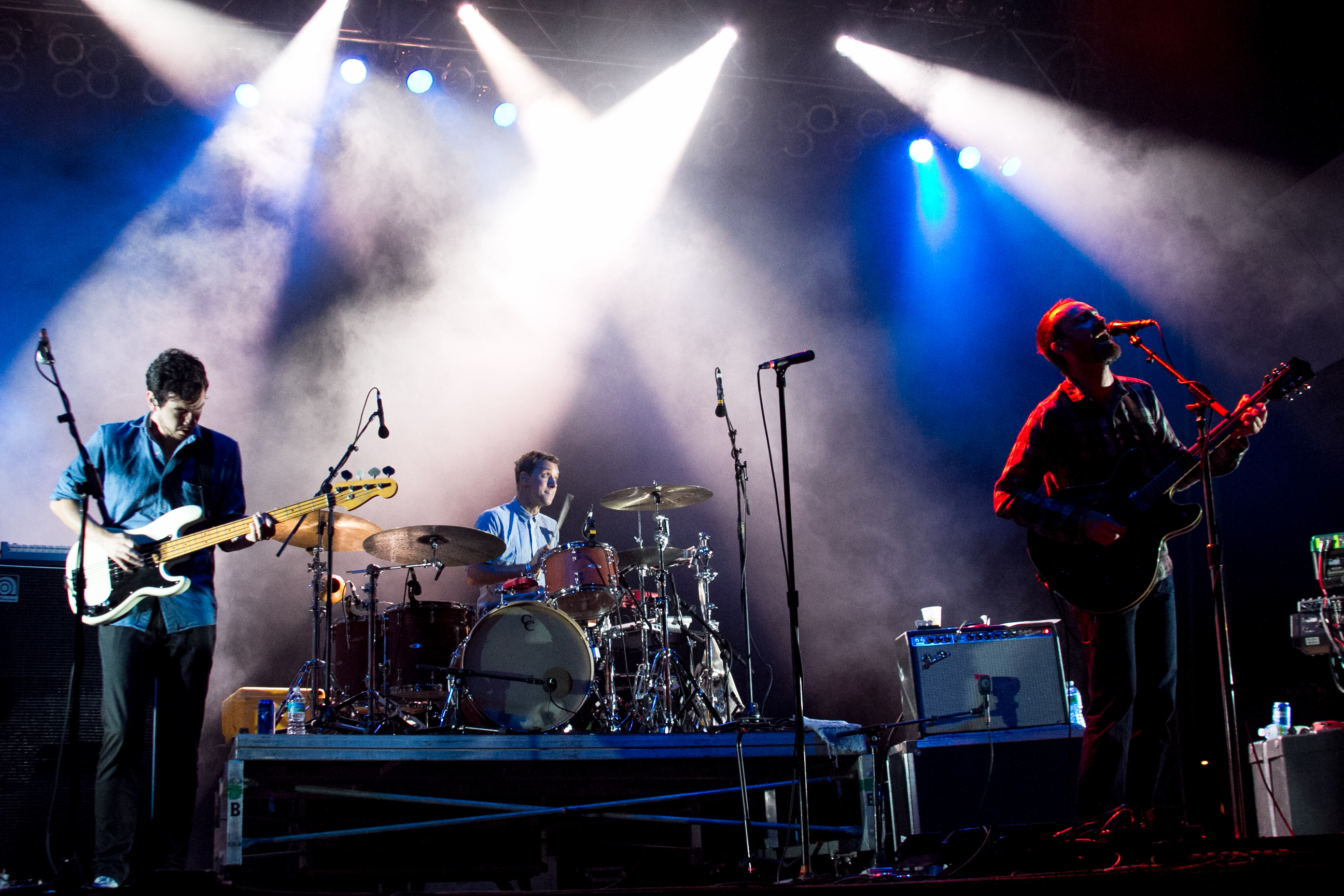 The Shins performing at DeLuna Fest 2011 in Pensacola, Florida.